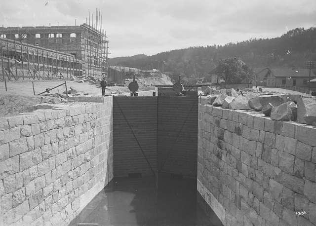 Tista Canal in Halden, Norway, during construction